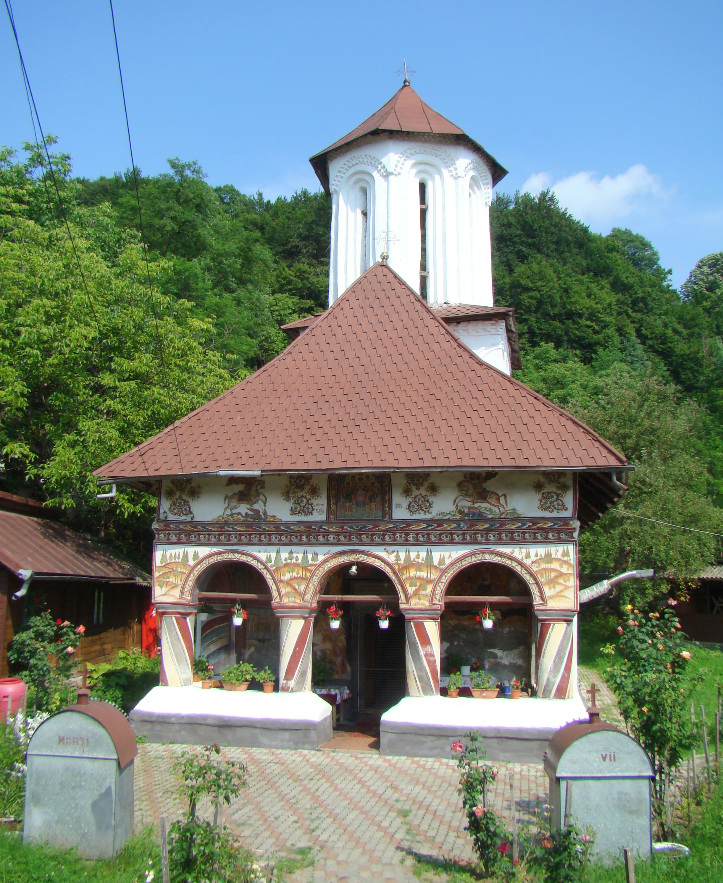 Archangels' church in Olănești, Vâlcea county, Romania